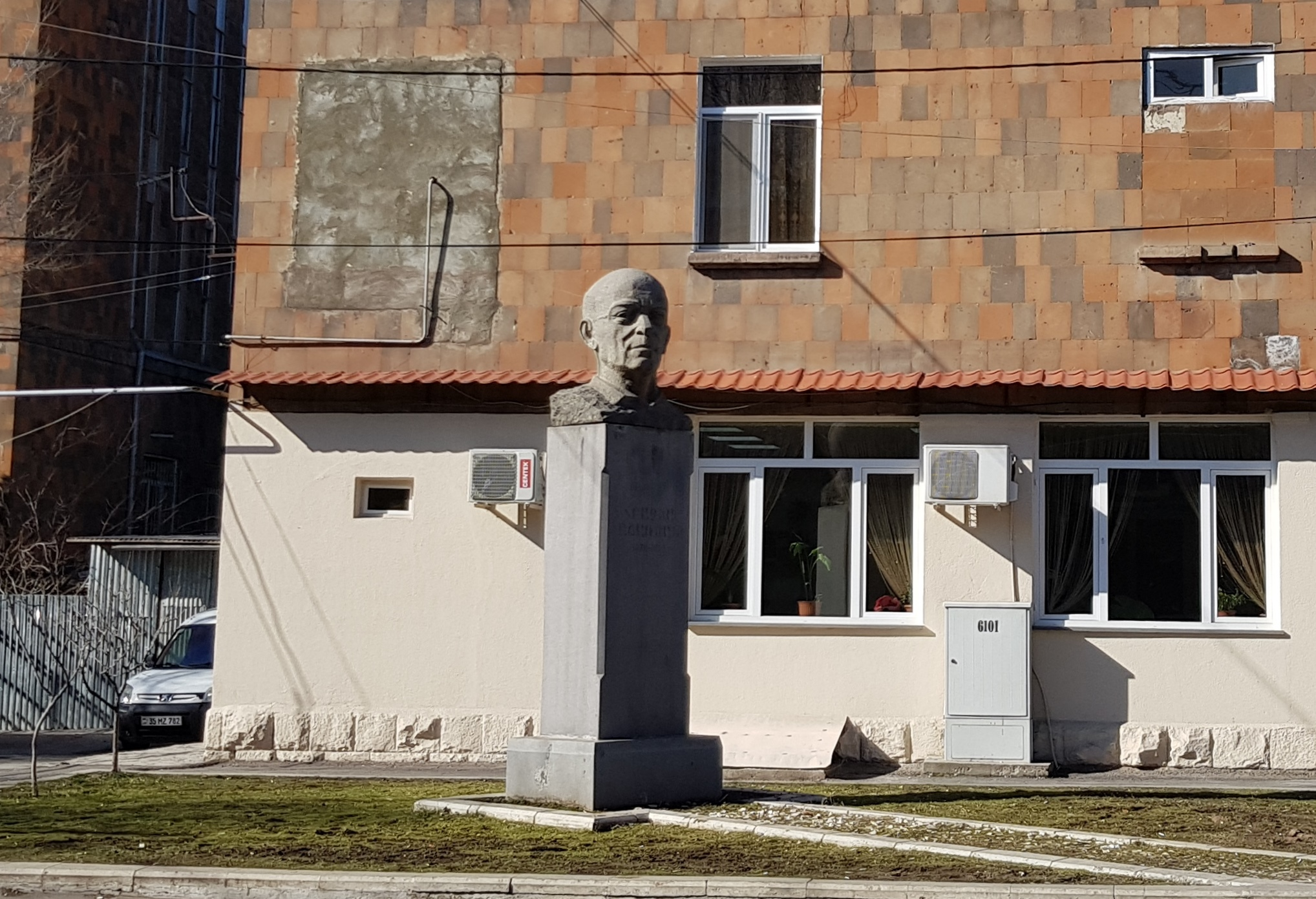 Hrachya Acharyan's bust in Avan district on the street Acharyan near the yard of the residence N 16